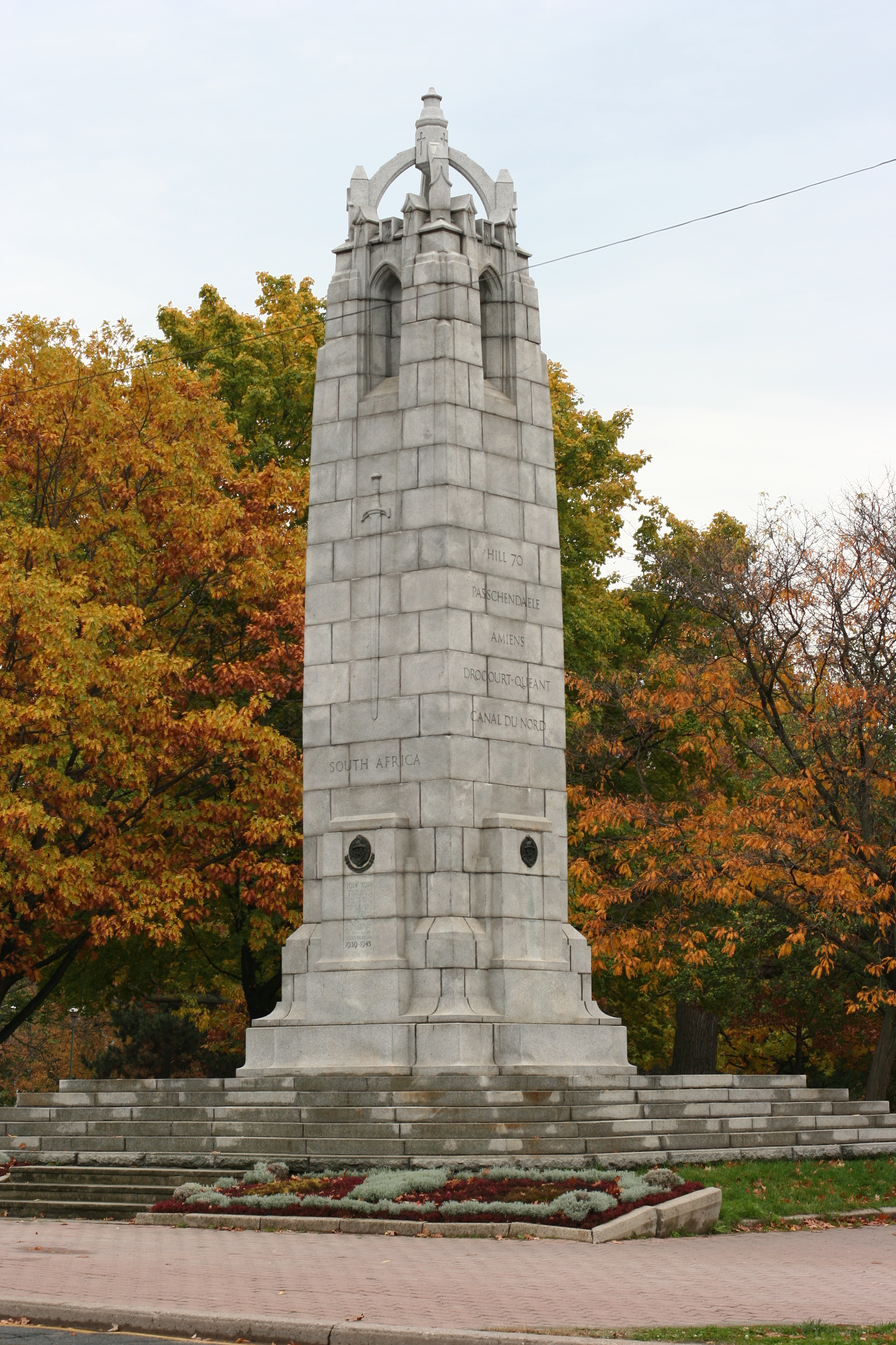 48th Highlanders Regimental Memorial (by Eric Wilson Haldenby and Alvan Sherlock Mathers, and constructed in 1923) on the north end of Queen's Park, Toronto, Canada.